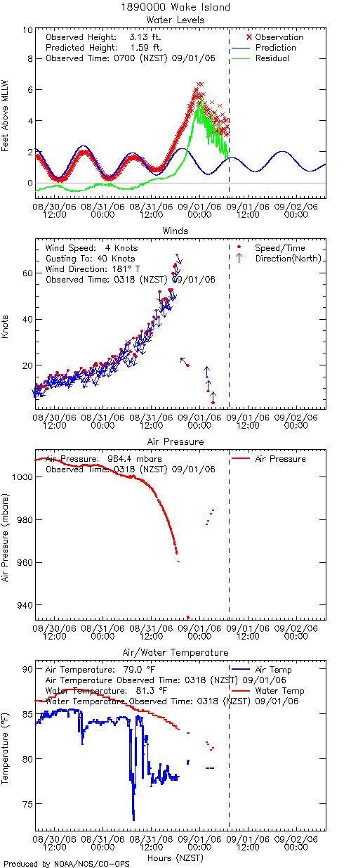 screen shot as Hurricane Ioke crosses over Wake Island